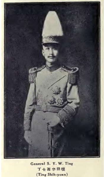 Ding Shiyuan (1879-1945)